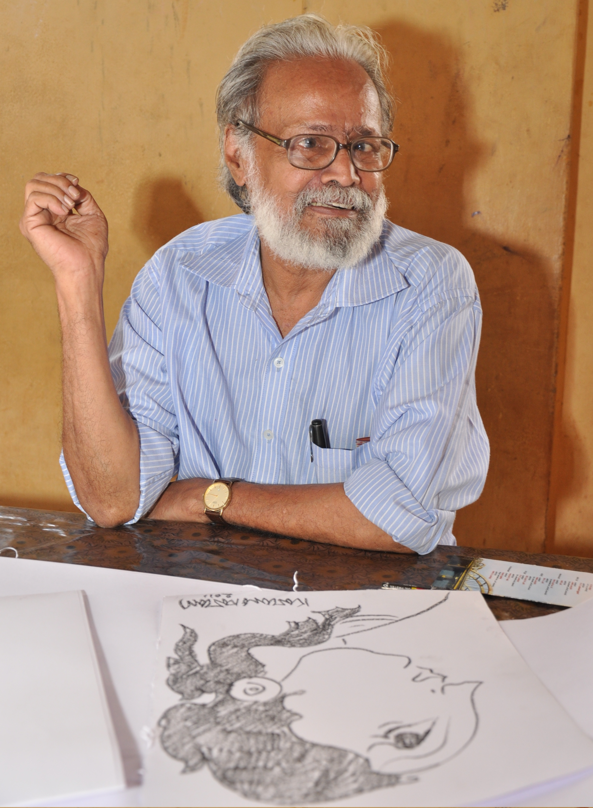 Artist C.N. Karunakaran,Kerala, at Vidyarangam state sahityolsavam, Alwaye